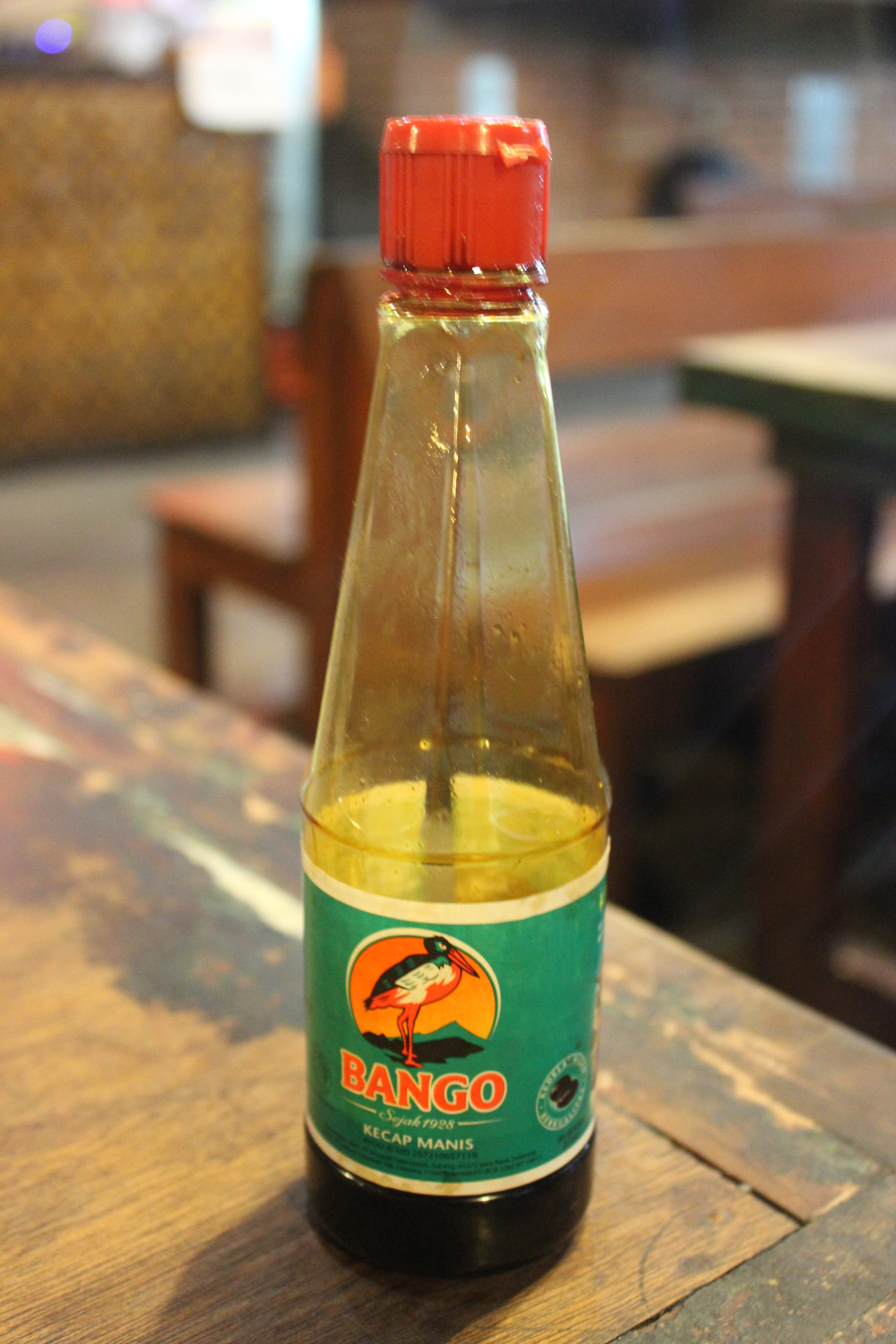 Bango ketchup bottle, a common and popular ketchup brand in Indonesia.